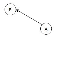 Simple 2 nodes graph (Dangling Links)